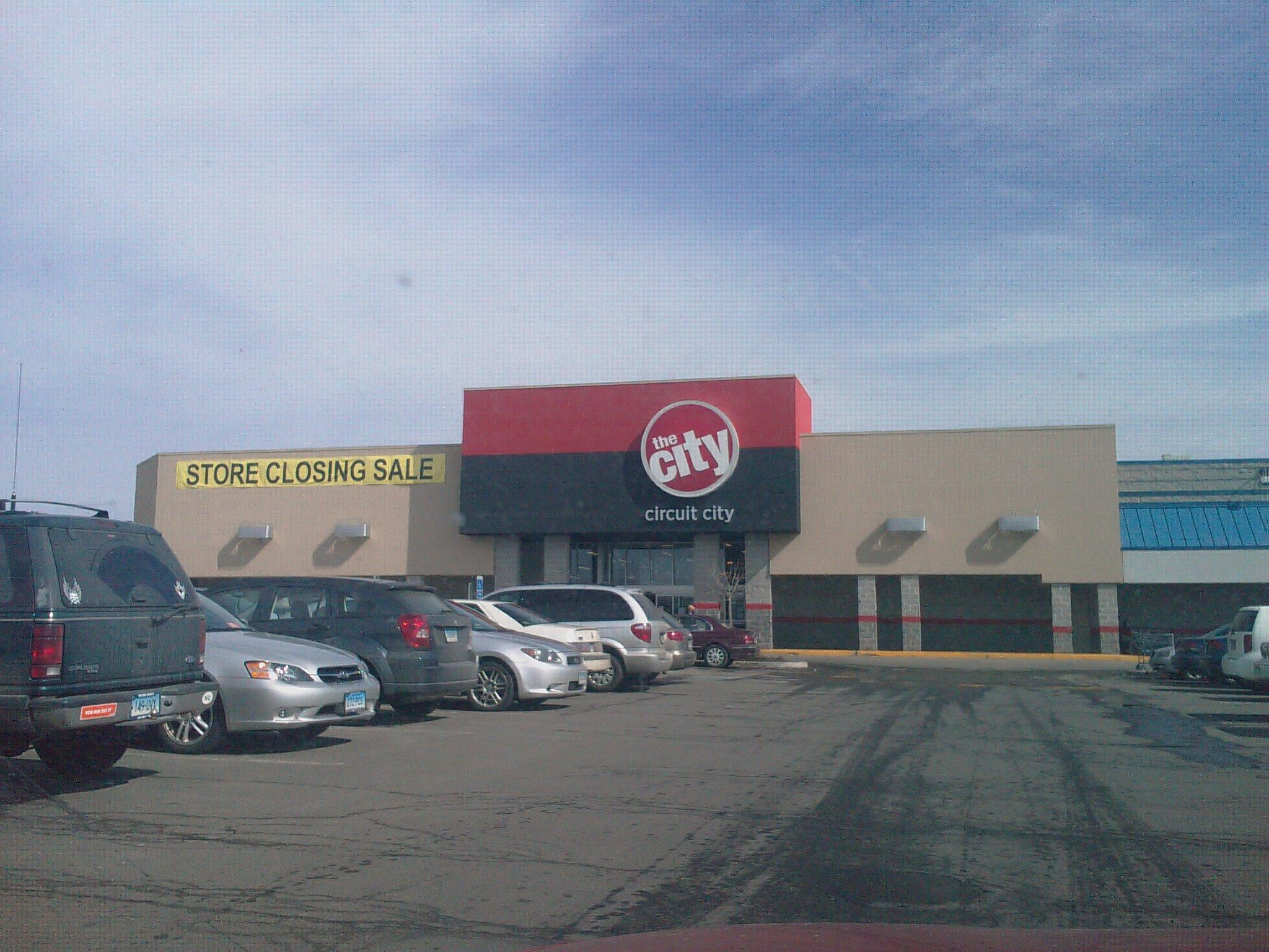 Circuit City "The City" signage, going out of business sale, Torrington, CT